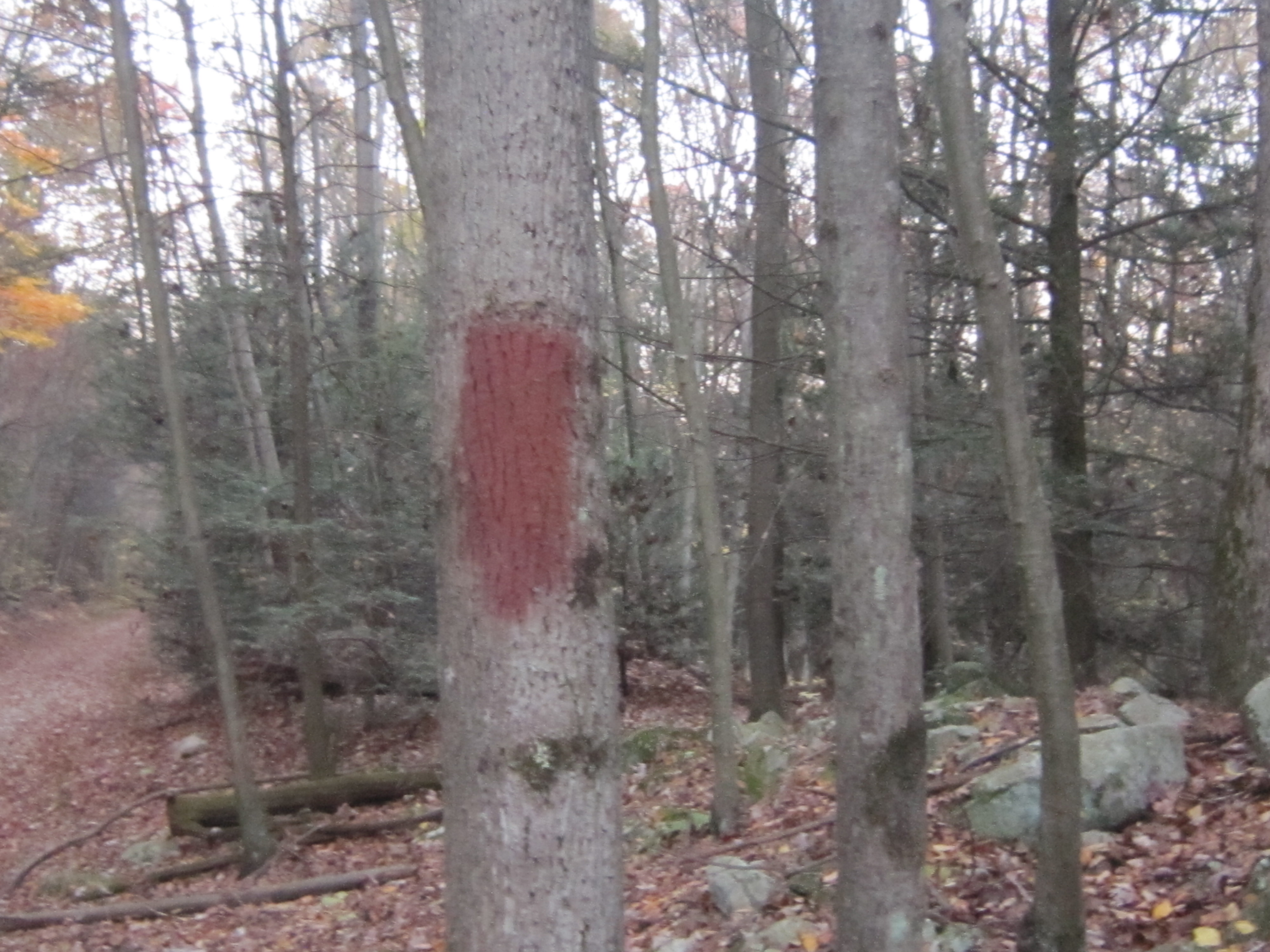 Trail marking